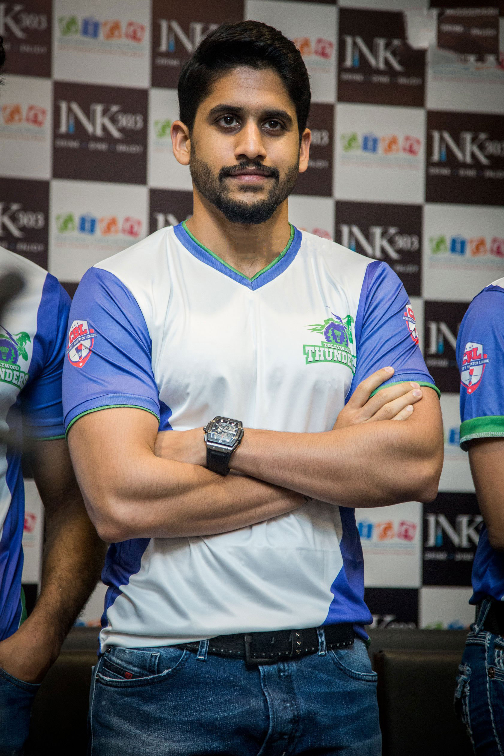 Naga Chaitanya at CBL Telugu Thunders Team Jersey Launch